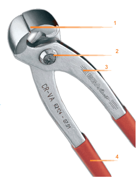 Tenza EGA Master